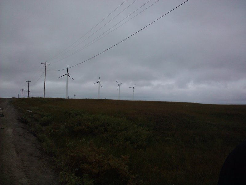 The four windmills in Chevak, Alaska.